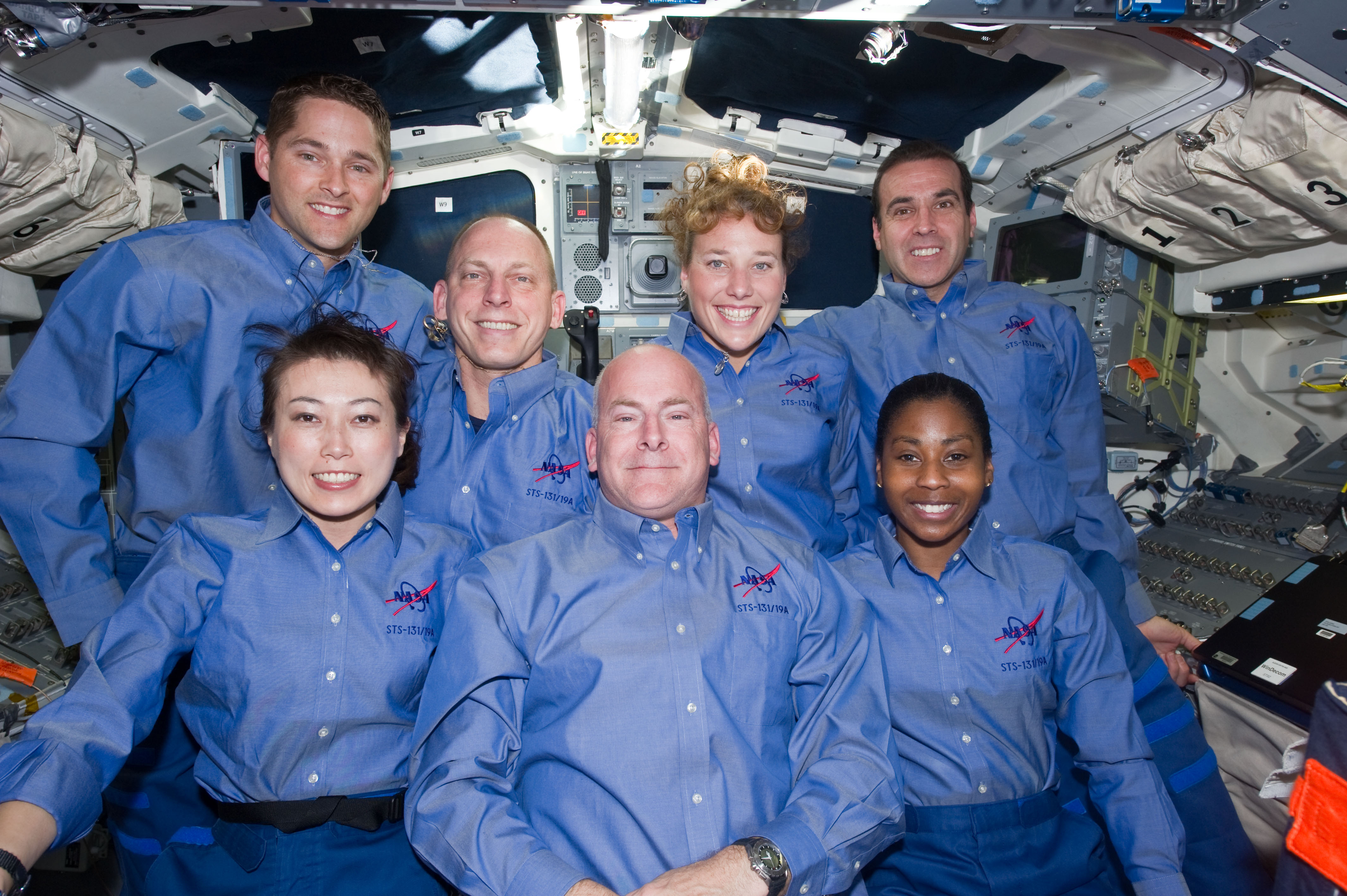 The STS-131 crew members pose for an in-flight portrait on the aft flight deck of the Earth-orbiting space shuttle Discovery. Pictured on the front row are NASA astronaut Alan Poindexter, commander; Japan Aerospace Exploration Agency (JAXA) astronaut Naoko Yamazaki (left) and NASA astronaut Stephanie Wilson, both mission specialists. Pictured from the left (back row) are NASA astronauts James P. Dutton Jr., pilot; Clayton Anderson, Dorothy Metcalf-Lindenburger and Rick Mastracchio, all mission specialists.